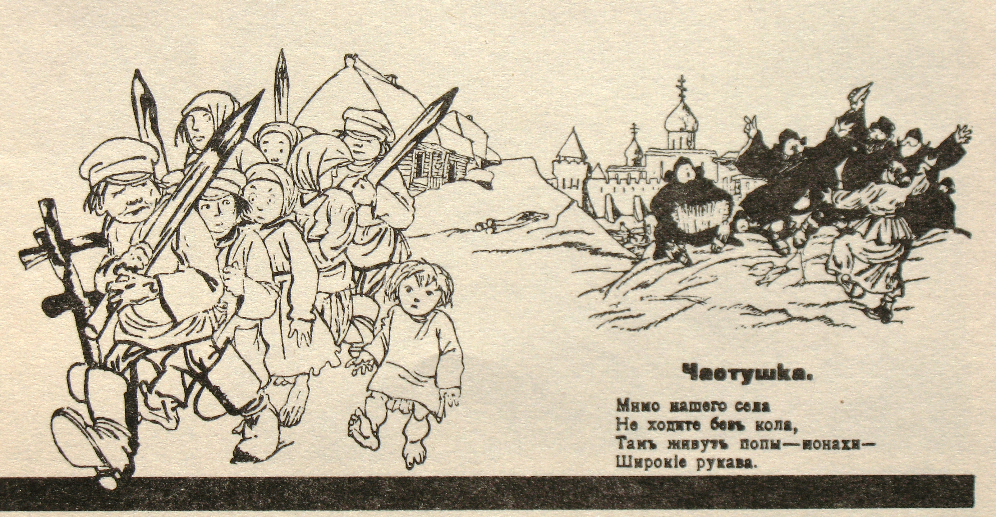 Dmitry Moor. Picture in "Budilnik".